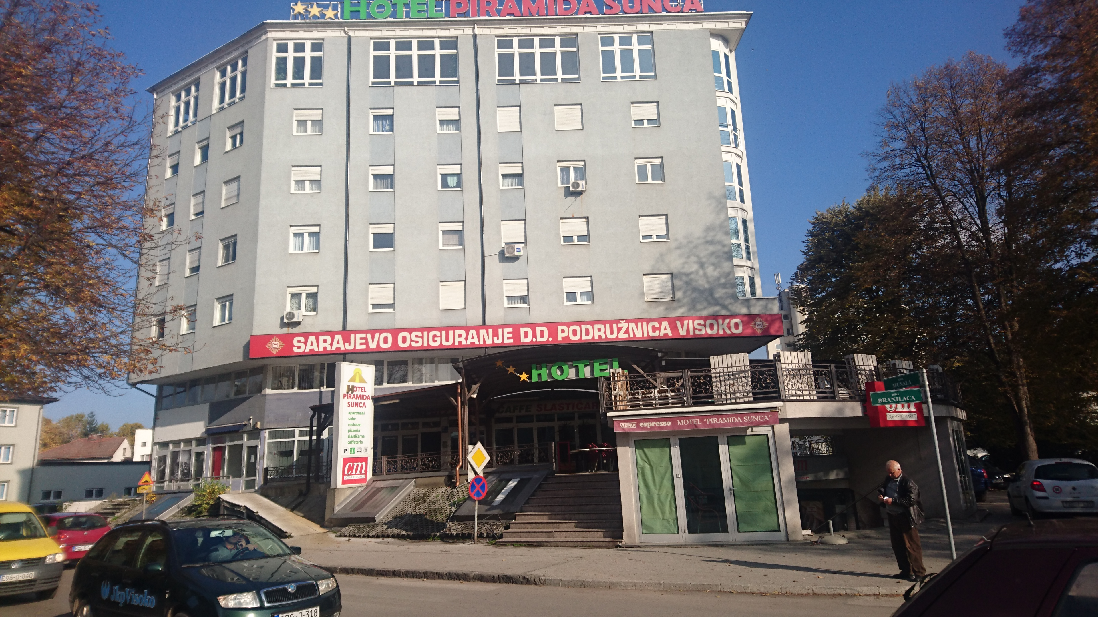 The Hotel Piramida Sunca in Visoko and a Sarajevo osiguranje branch under it.